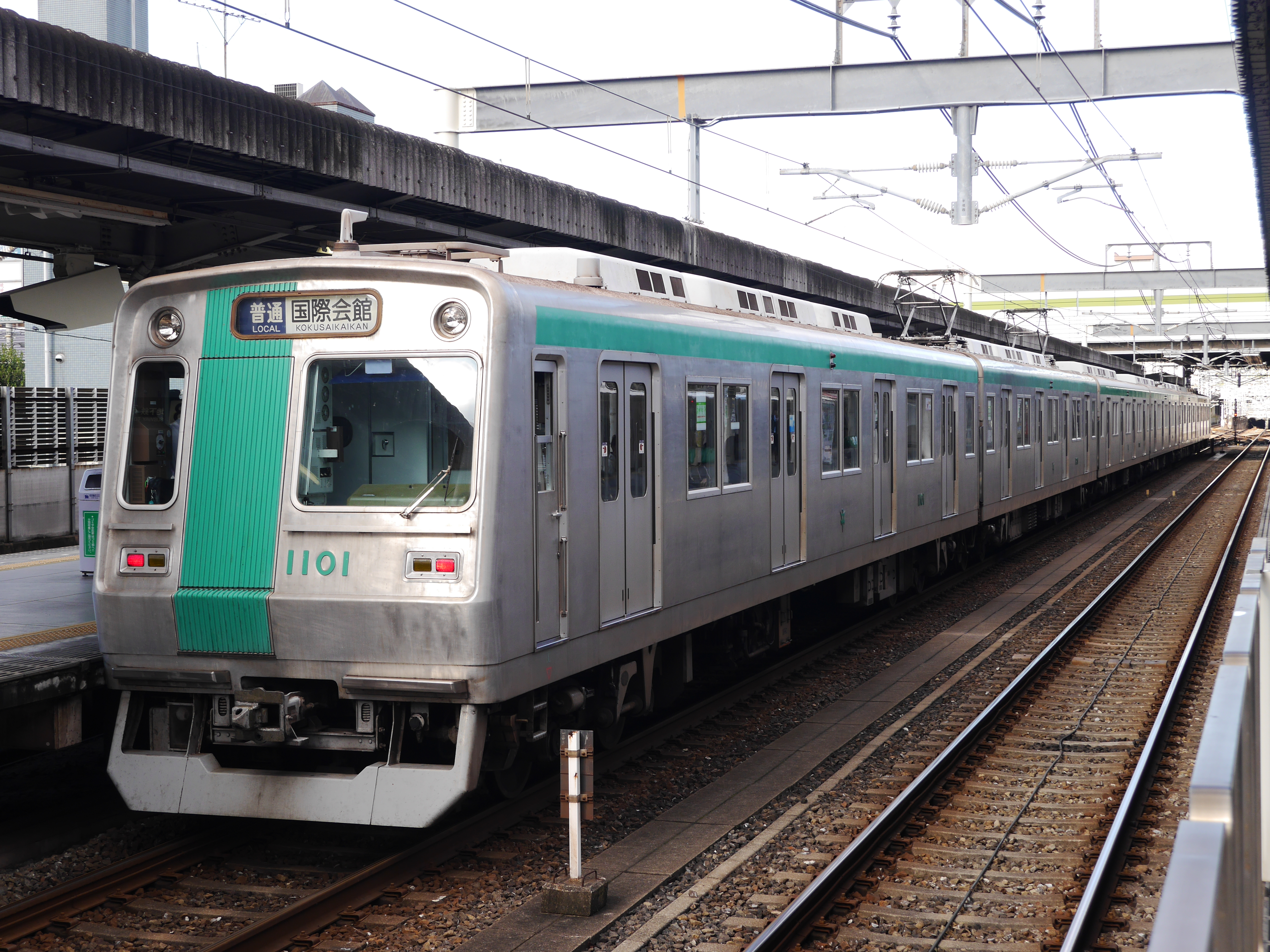 Kyoto subway 10 series unit 01 at Takeda station